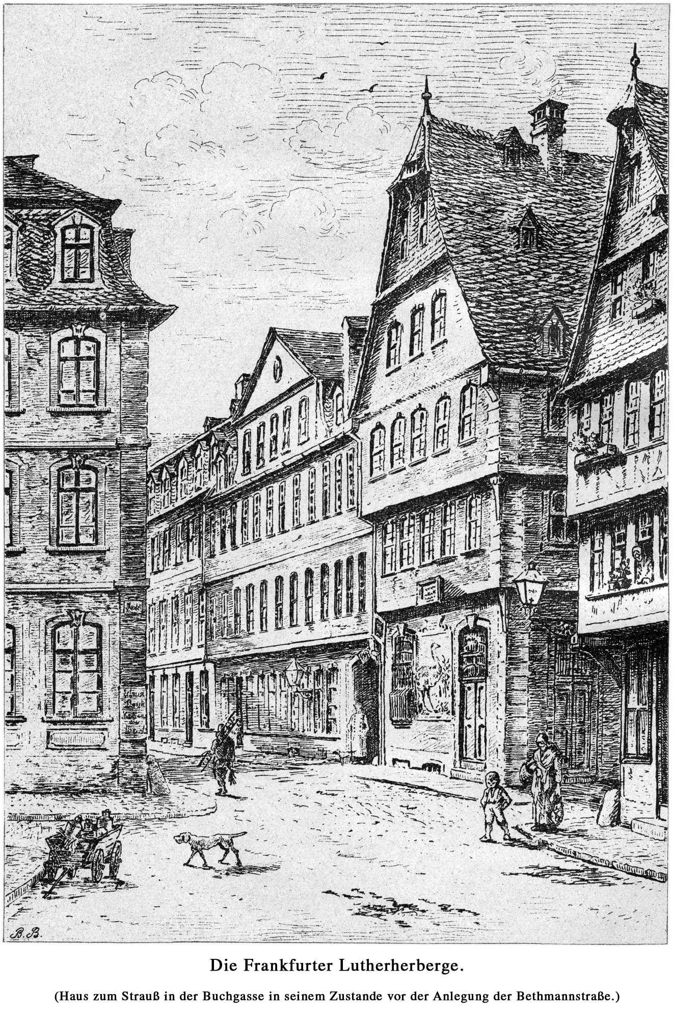 Frankfurt on the Main: House Zum Strauss (To the Ostrich) at the corner of Schueppengasse (Scoop Lane) / Buchgasse (Book Lane)